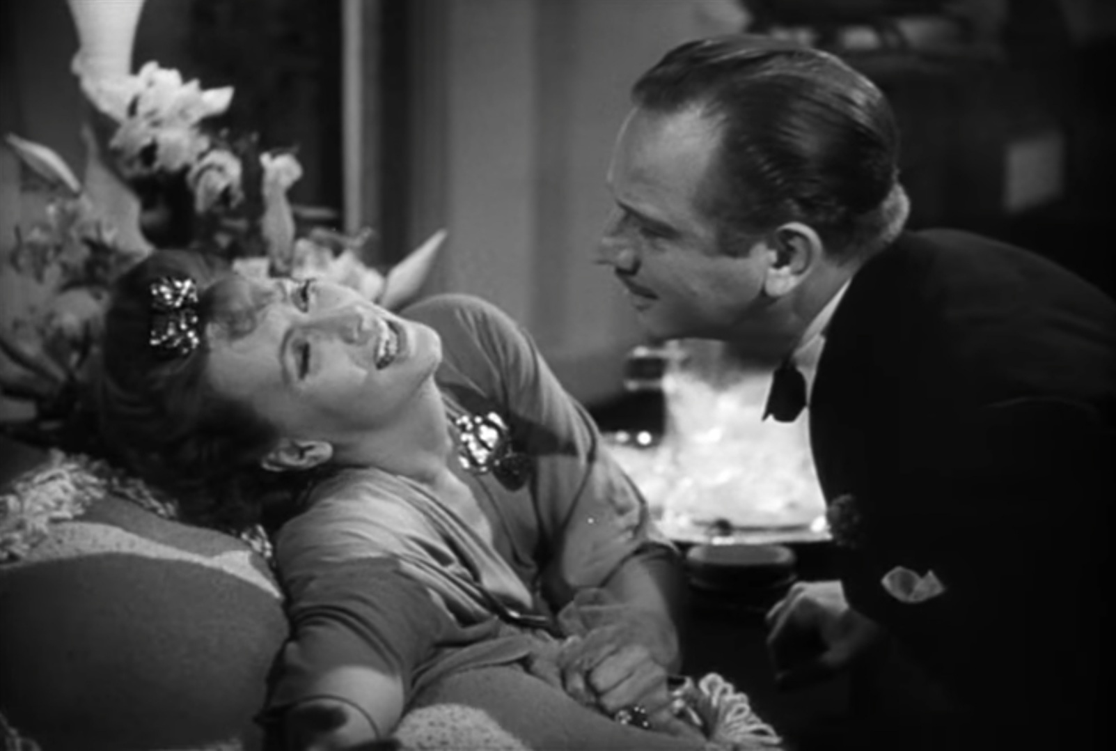 Scene from trailer for "Two-Faced Woman" (1941)